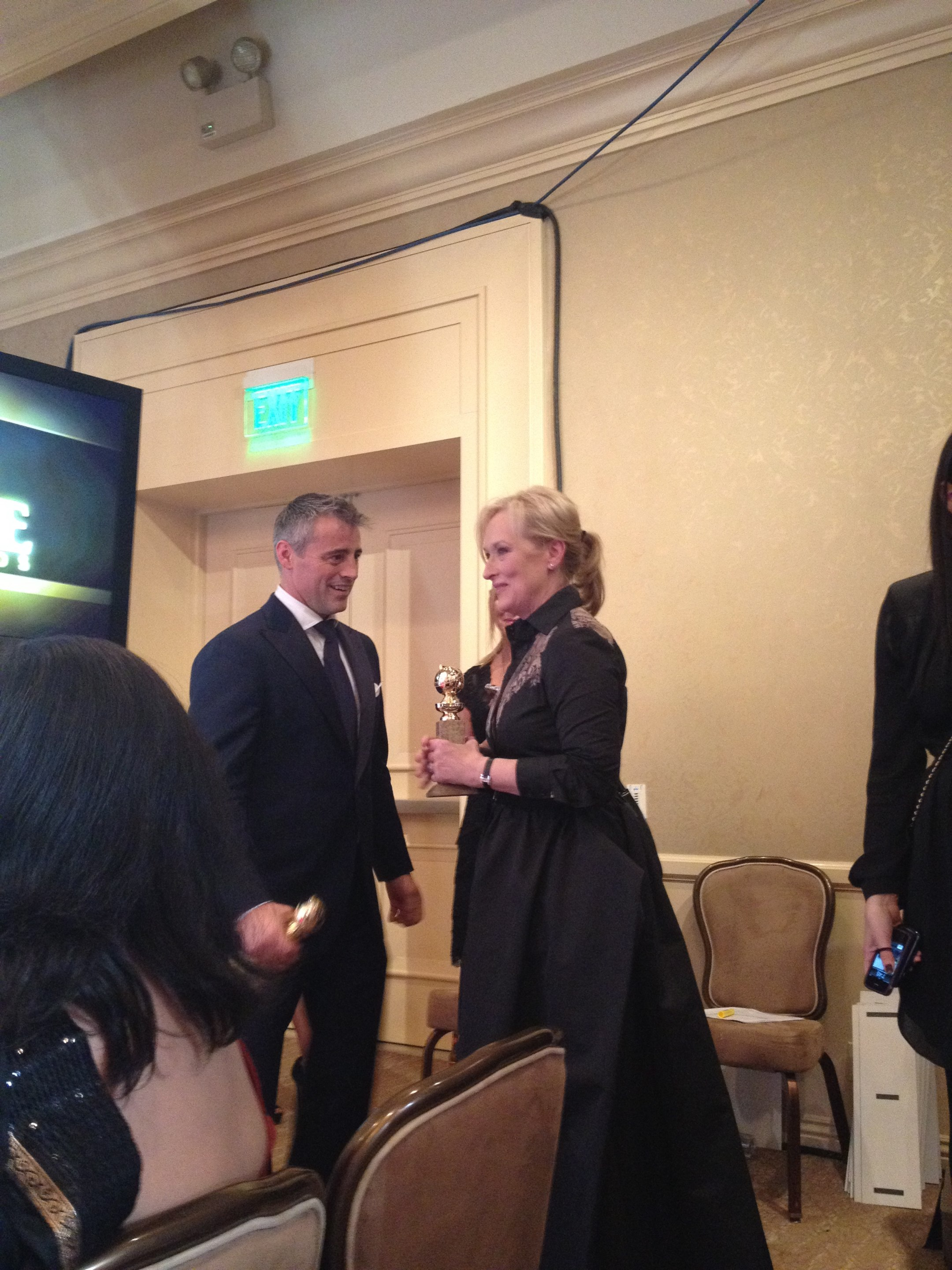 69th Annual Golden Globes Awards.